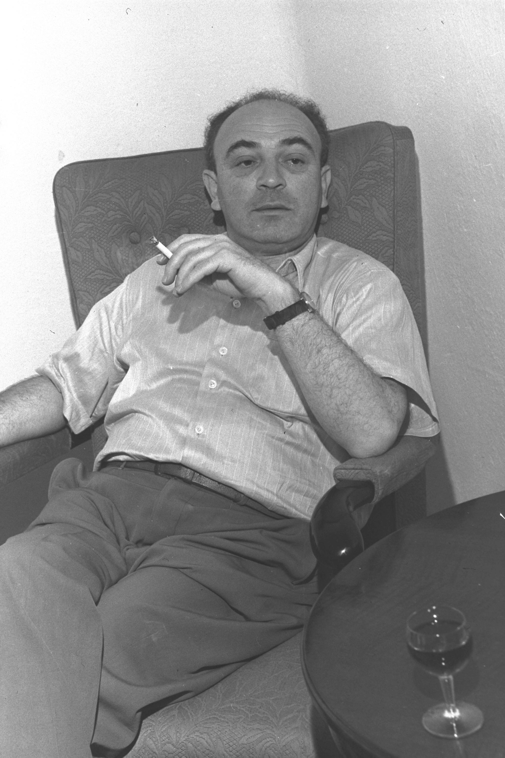 Original Description: MR. GERSHON AGRONSKY (AGRON) DIRECTOR OF GOVERNMENT INFORMATION SERVICES.